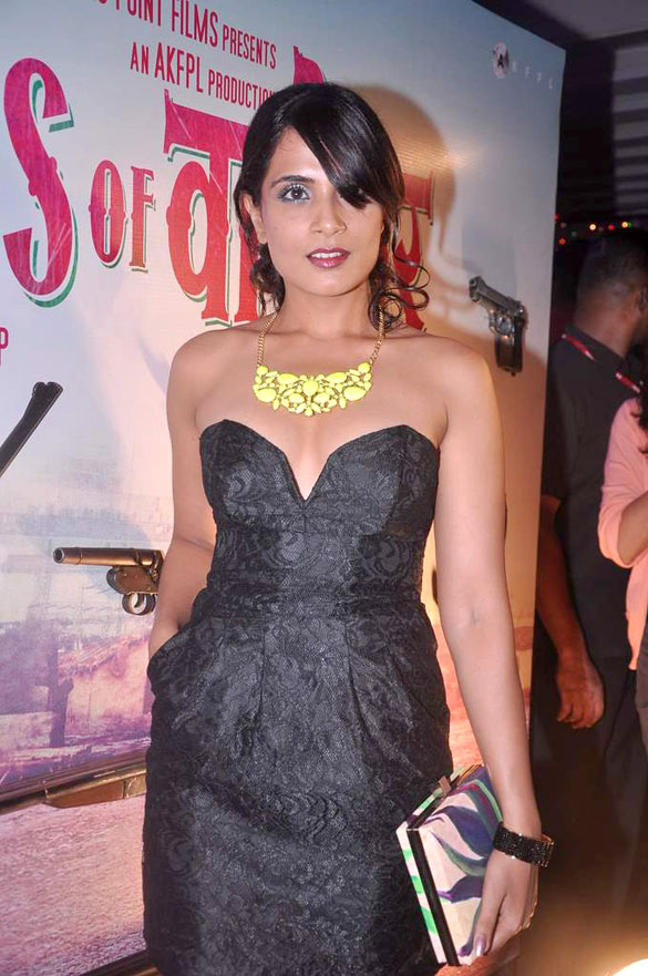 Richa Chadda at Success bash of 'Gangs of Wasseypur'